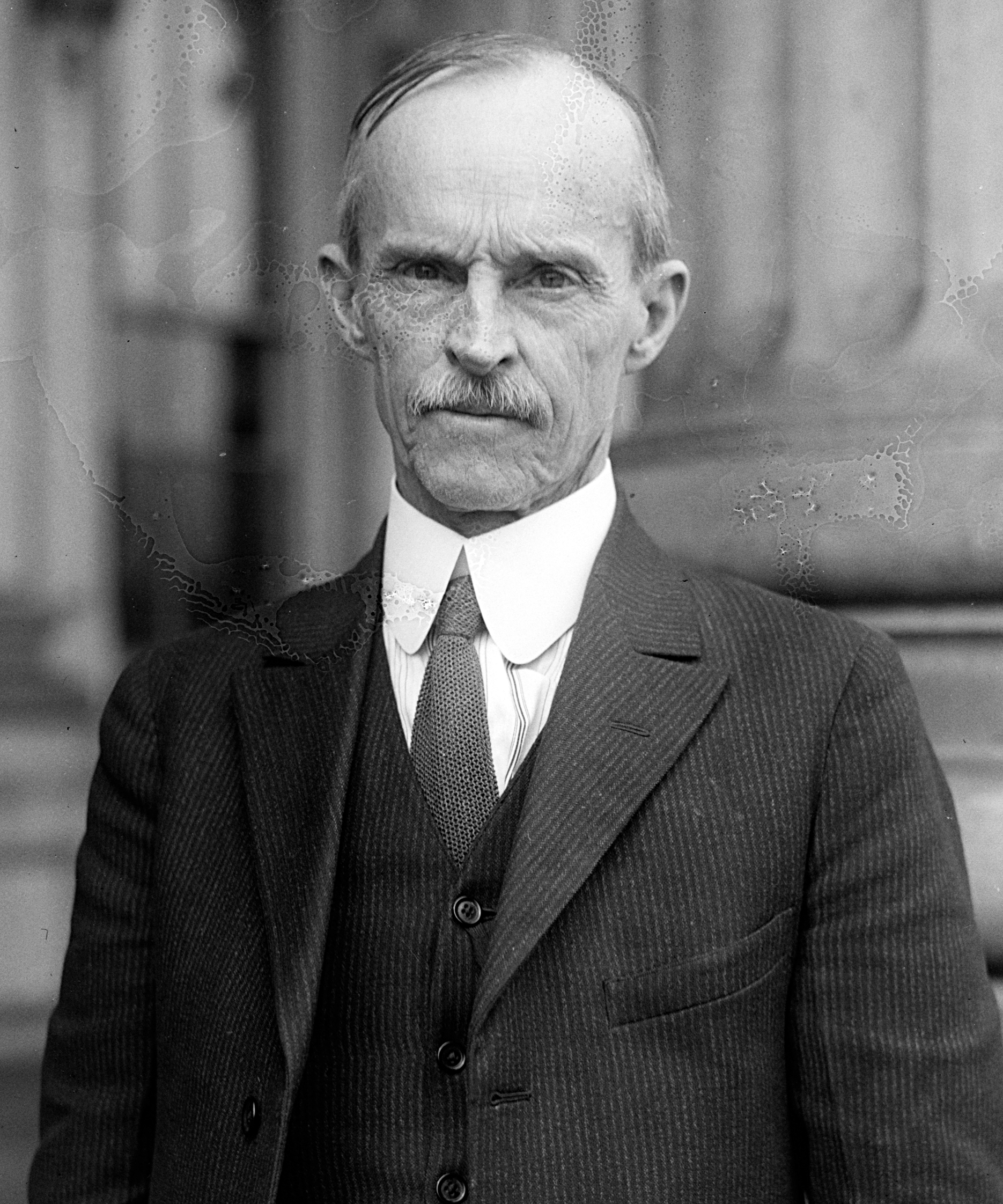 John R. Farr, US Representative from Pennsylvania